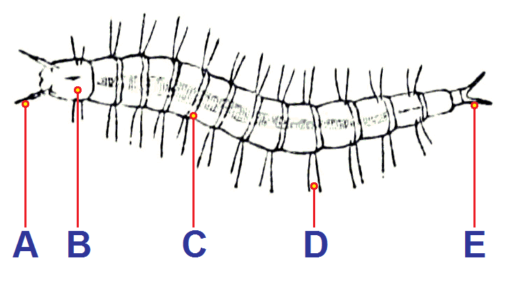 Larva of flea